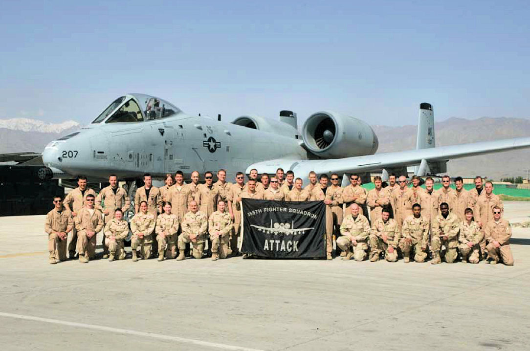 The 355 FS deployed to Bagram AB, Afghanistan in support of Operation ENDURING FREEDOM. The unit flew more than 1,500 combat sorties and 5,000 hours in the skies over Afghanistan. This marked the unit’s last A-10 combat deployment